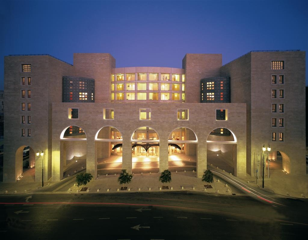 David Citadel Hotel, Jerusalem - front entrance